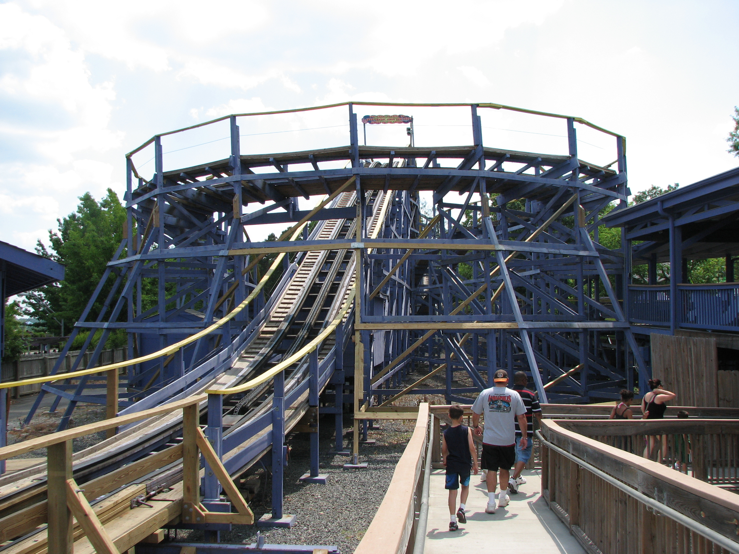 Woodstock Express at Carowinds amusement park.